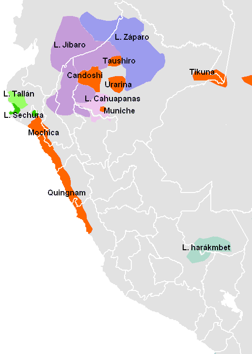 Small language families and isolates in Peru